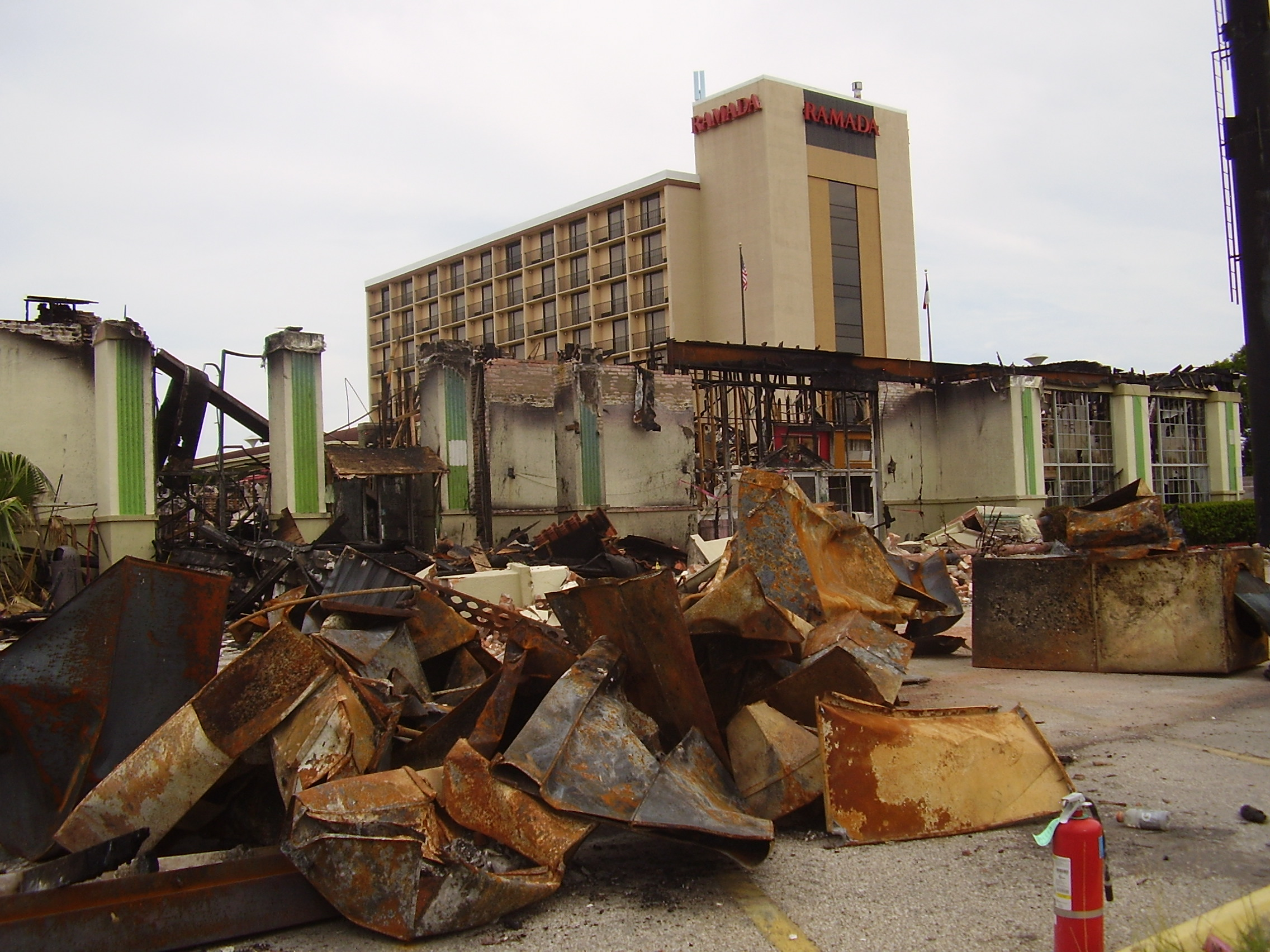 Aftermath of the Southwest Inn fire